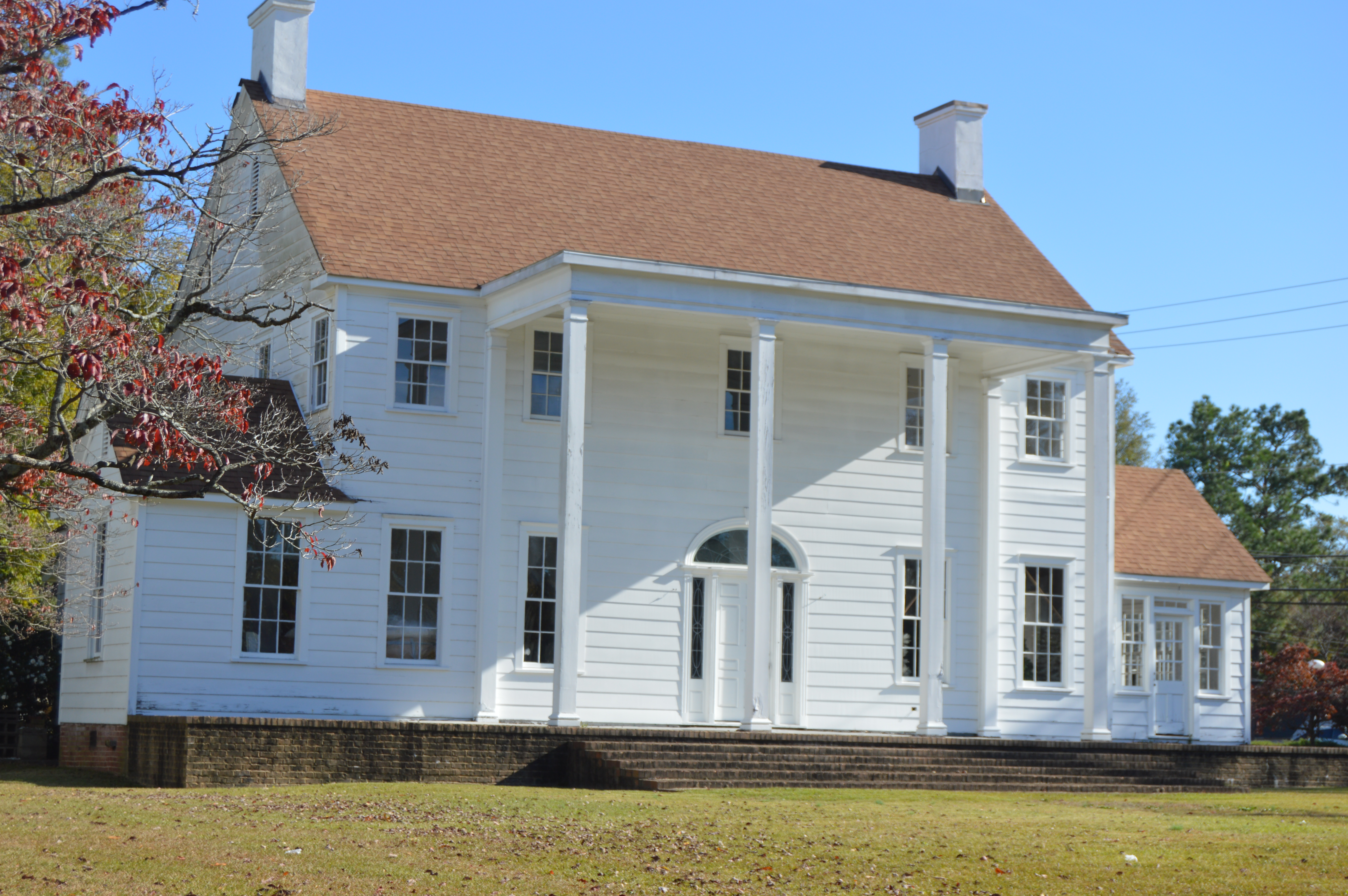 Front of the Dr. Evan Alexander Erwin House, located at 520 S. Main Street in Laurinburg, North Carolina, United States. Built in 1939, it is listed on the National Register of Historic Places.